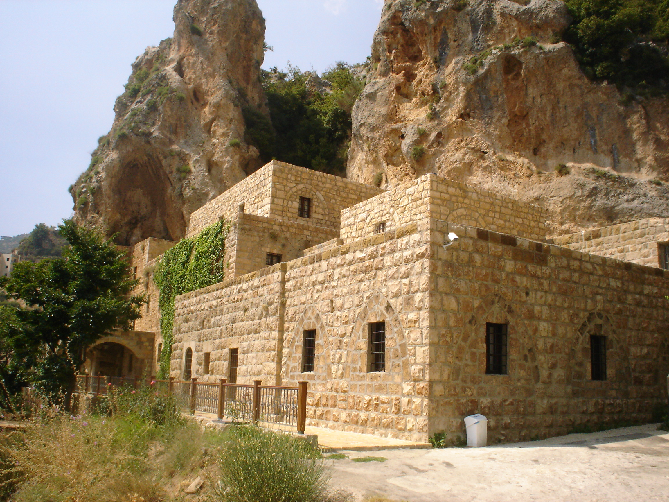 A picture of the Gibran Museum, located in Bsharri, Lebanon.